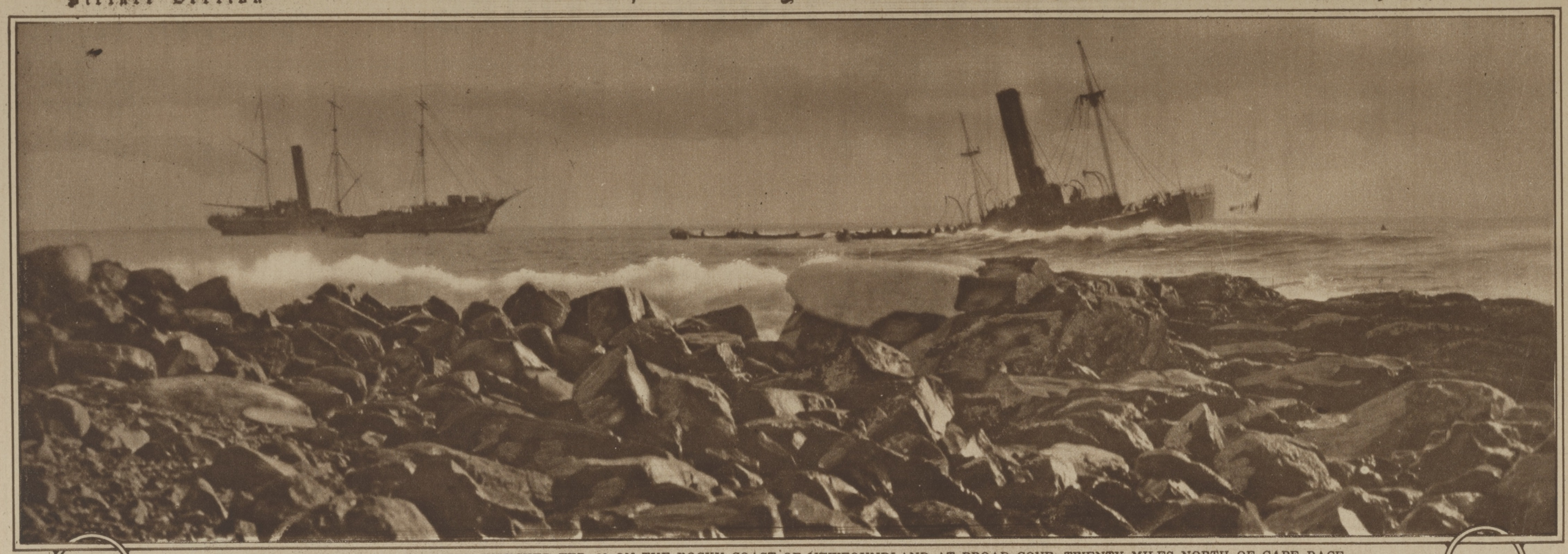 Caption "The Red Cross Liner SS Florizel, wrecked Feb 23 on the Rocky coast of Newfoundland at Broad Cover, Twenty miles north of Cape Rock, lying on a ledge awash from Stem to Stern, while small boats removed the last of the passengers and crew found alive, Ninety-two of the 147 on board having been lost"